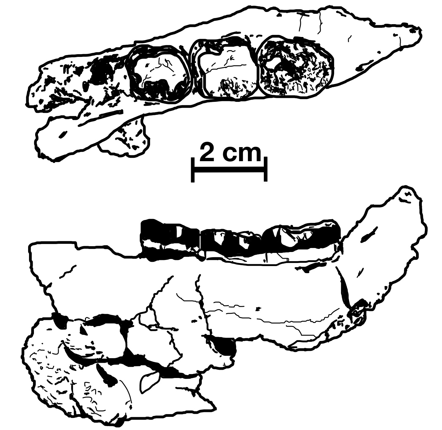 Top and side view of Nakalipithecus holotype based on Drawn with Notability for iOS